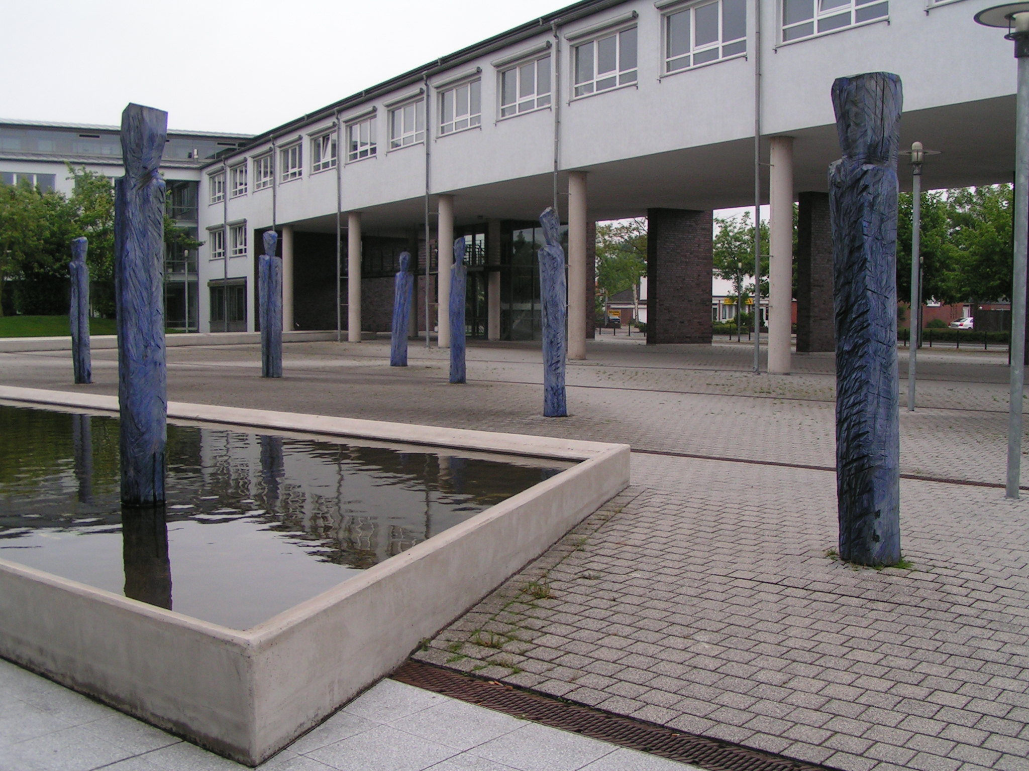 District Administration Building in Vechta (Lower Saxony). Wooden steles by Ulrich Fox